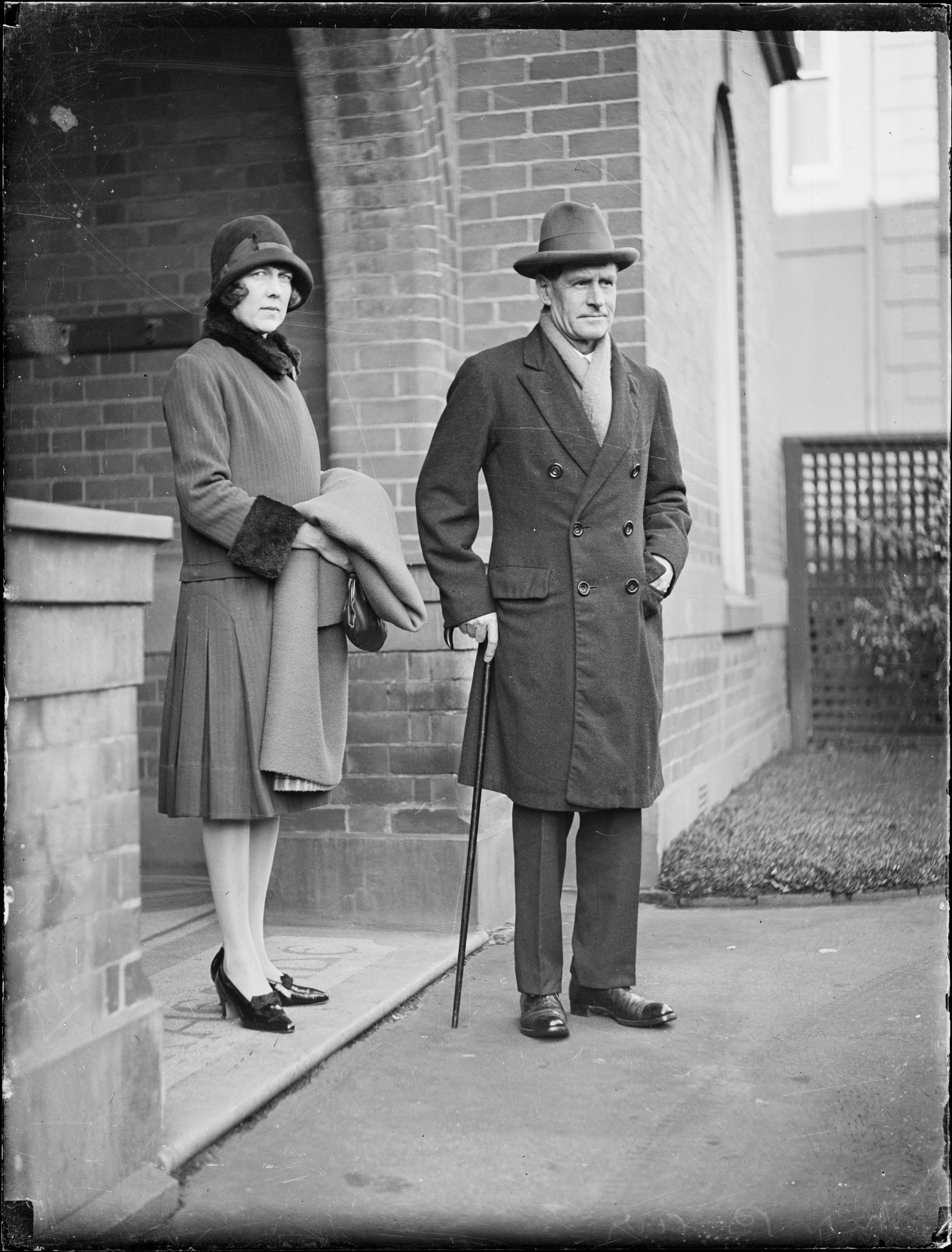 Australian politician Tom Bavin, premier of New South Wales, with his wife Edyth